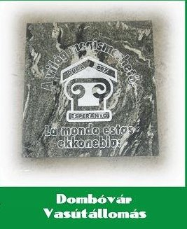 Esperanto-Plaque of Railway station in Dombóvár, Hungary